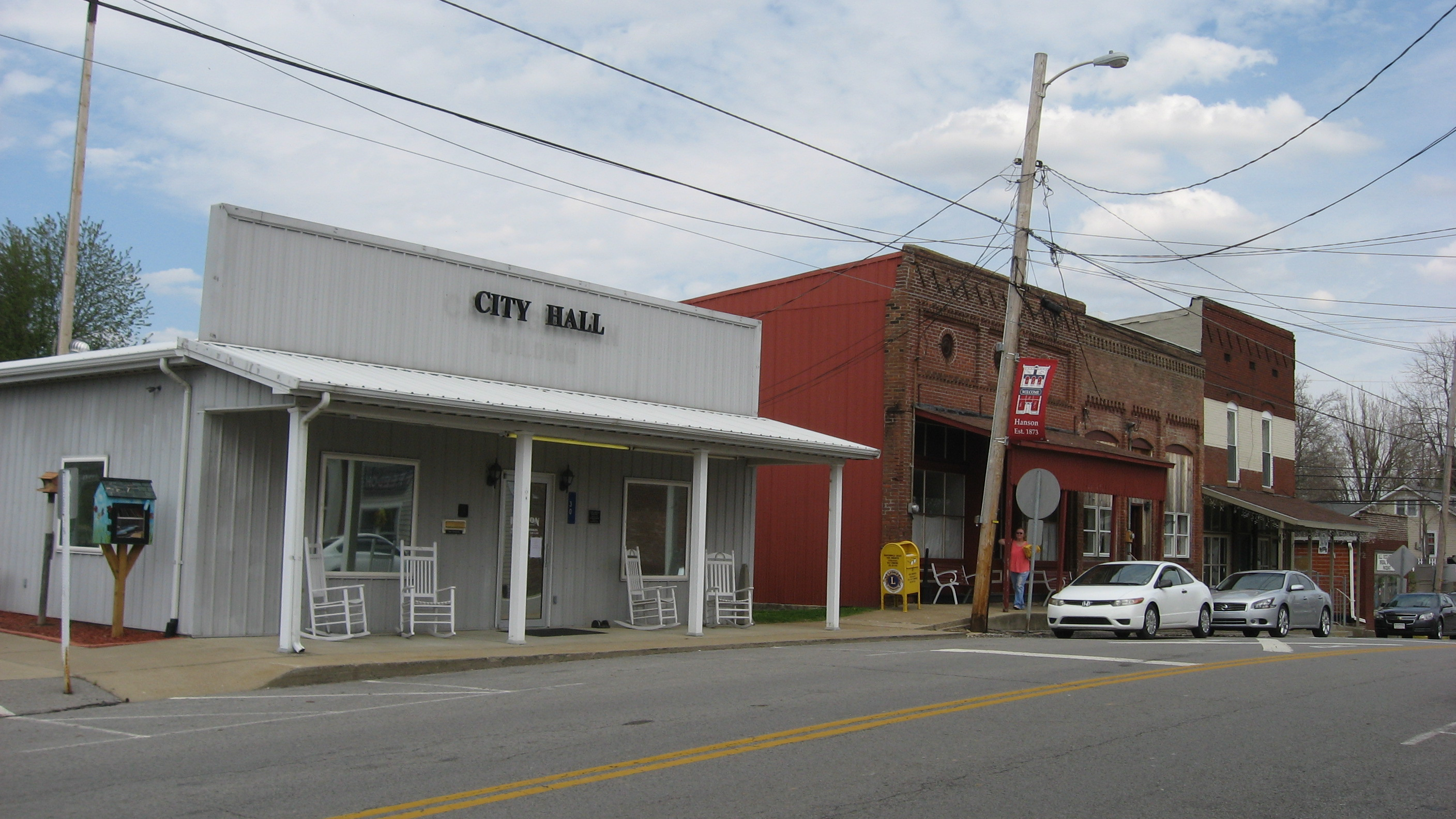 Buildings on the northern side of the first block of W. Main Street in Hanson, Kentucky, United States. This block is part of the Hanson Historic District, a historic district that is listed on the National Register of Historic Places.